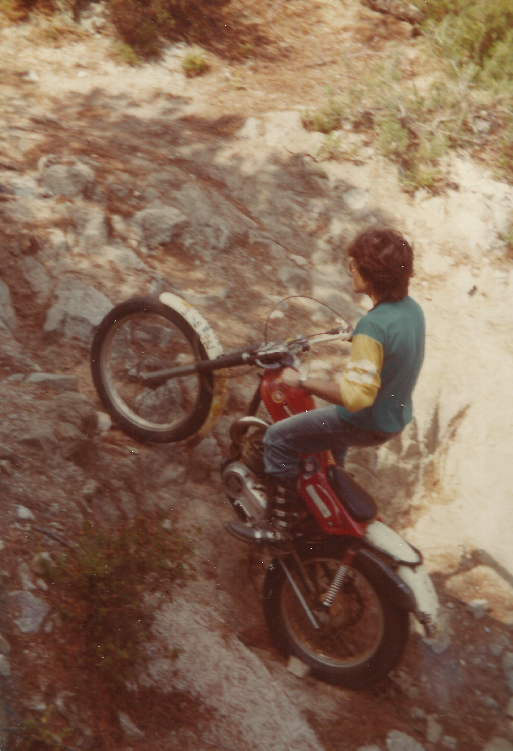 An amateur trials rider on a 1975 Montesa Cota 247 "VUK" (Version Ulf Karlson), riding in Premià de Dalt (Catalonia) in summer 1981.